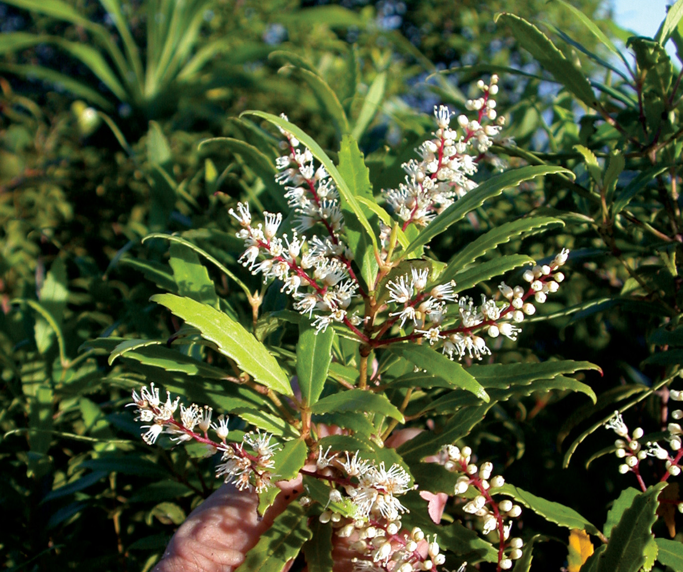 Weinmannia marquesana var. angustifolia Lorence & W. L. Wagner. Branchlets with male flowers (Perlman 14911, K. Wood photo).